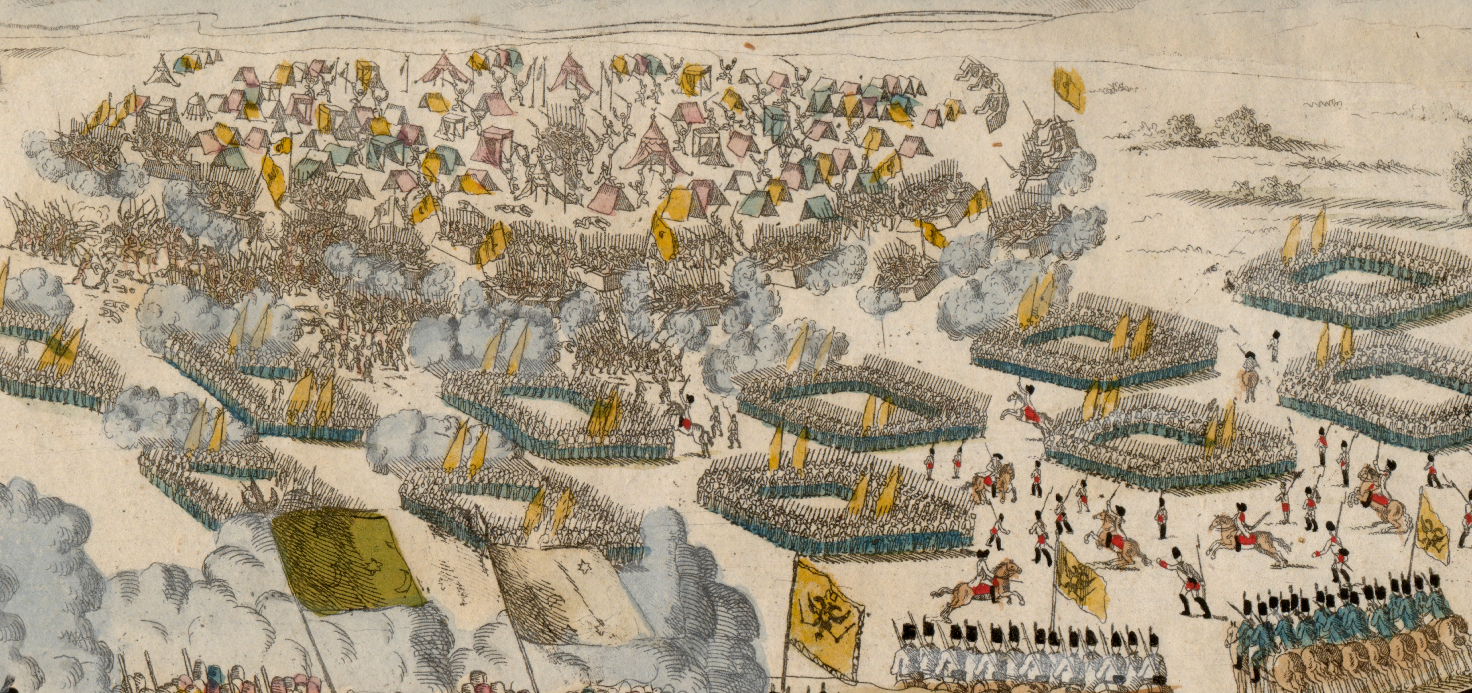 Focsani Battle 1 august 1789 Contributors Löschenkohl, Johann Hieronymus, 1753-1807 (artist) Date Issued 1789 Abstract Hand-col. engr. by and after Löschewnkohl; milit. group with prisoner and mounted soldiers in foreground, perspective view of battle in background. Keywords History, Military 18th century Austro-Turkish War, 1788-1790 Campaigns